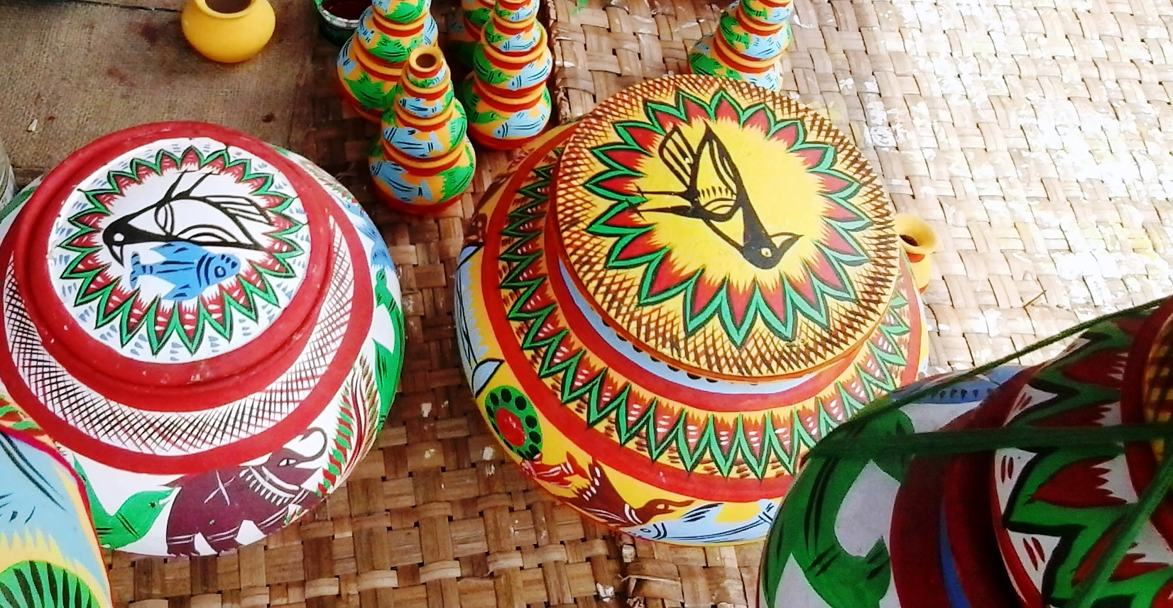 Baishakhi fair, Sonargaon, Narayangong